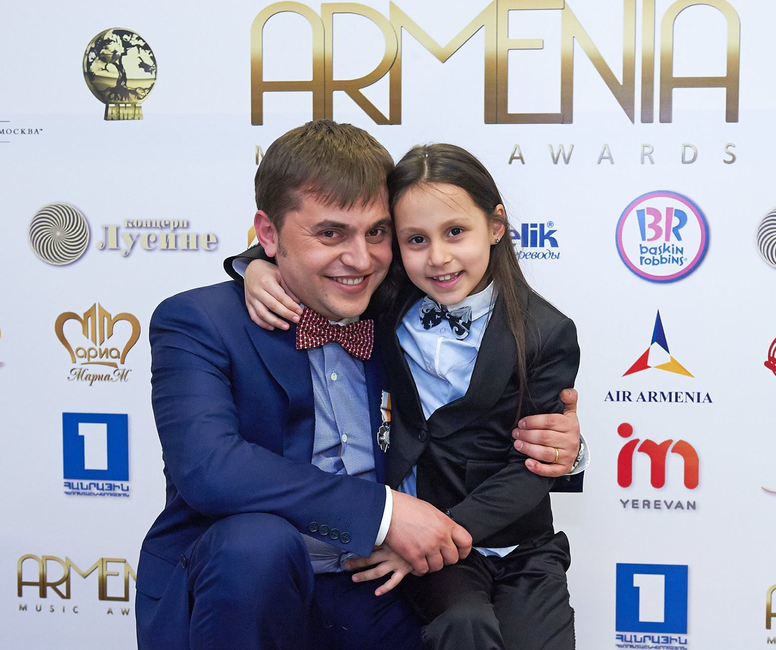 Valeriy Saaryan with his daughter Eva